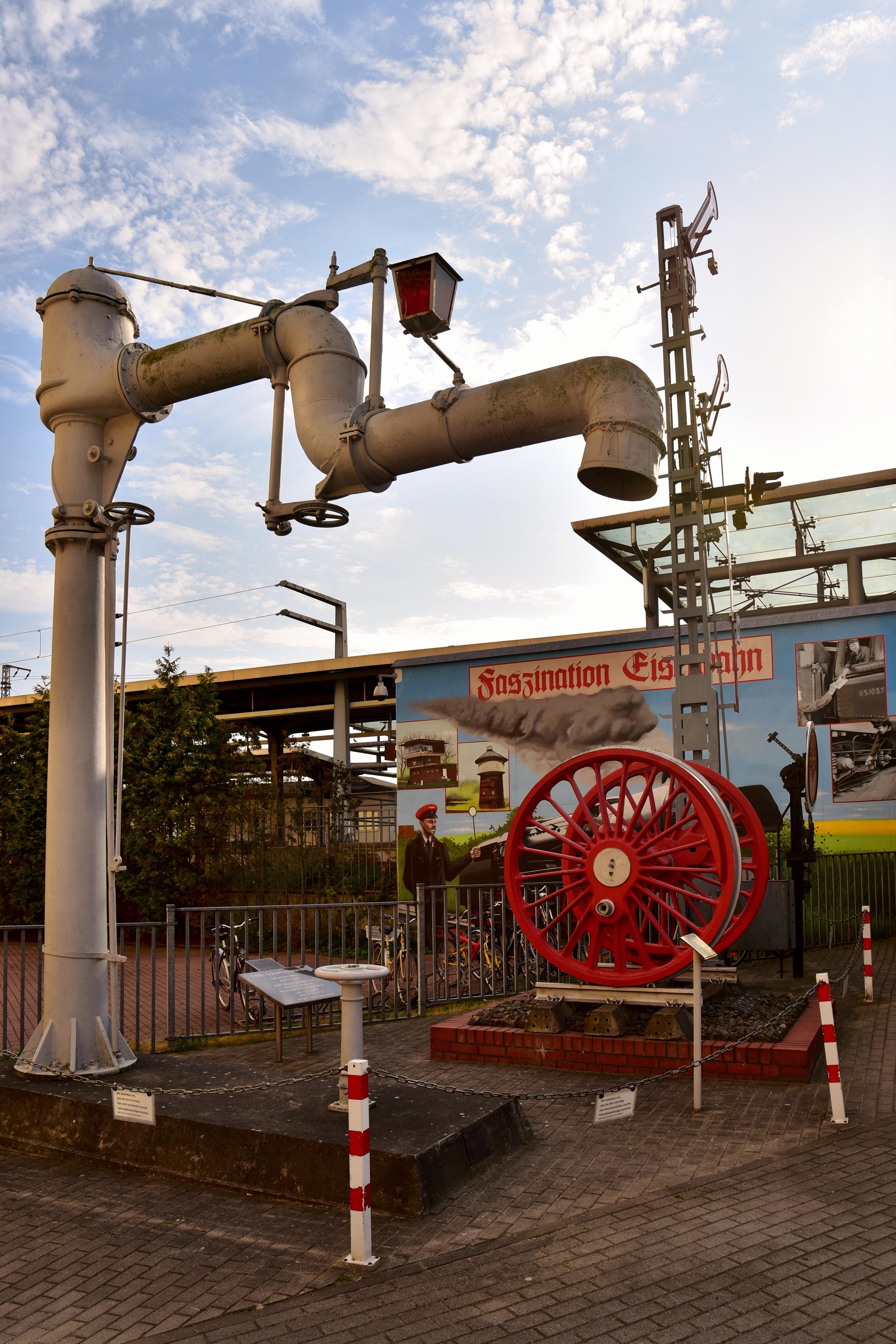 View of preserved water crane and steam locomotive driving wheelset, on display at Stralsund Hauptbahnhof